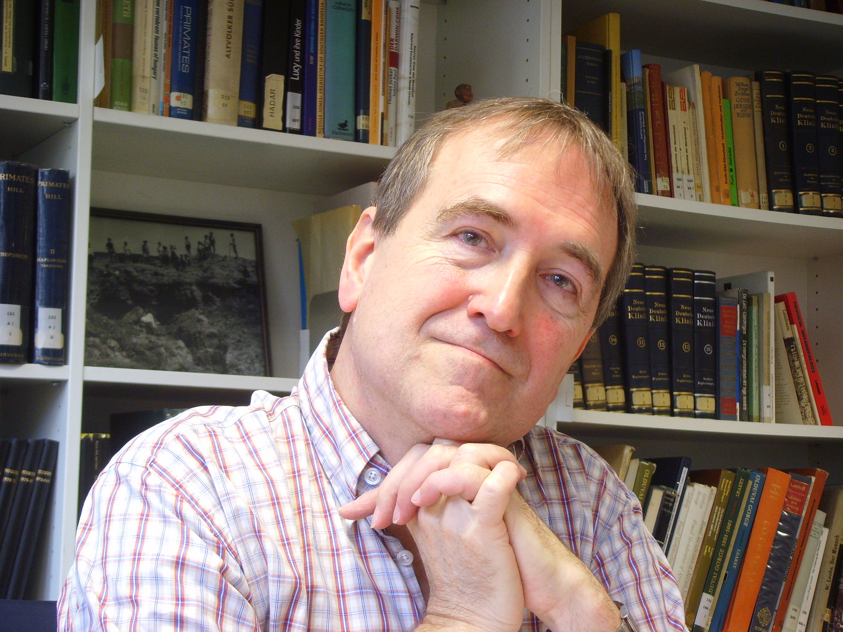 Chris Stringer (born 1947), British paleoanthropologist. Picture Taken at Senckenberg Museum, Frankfurt am Main, Germany.